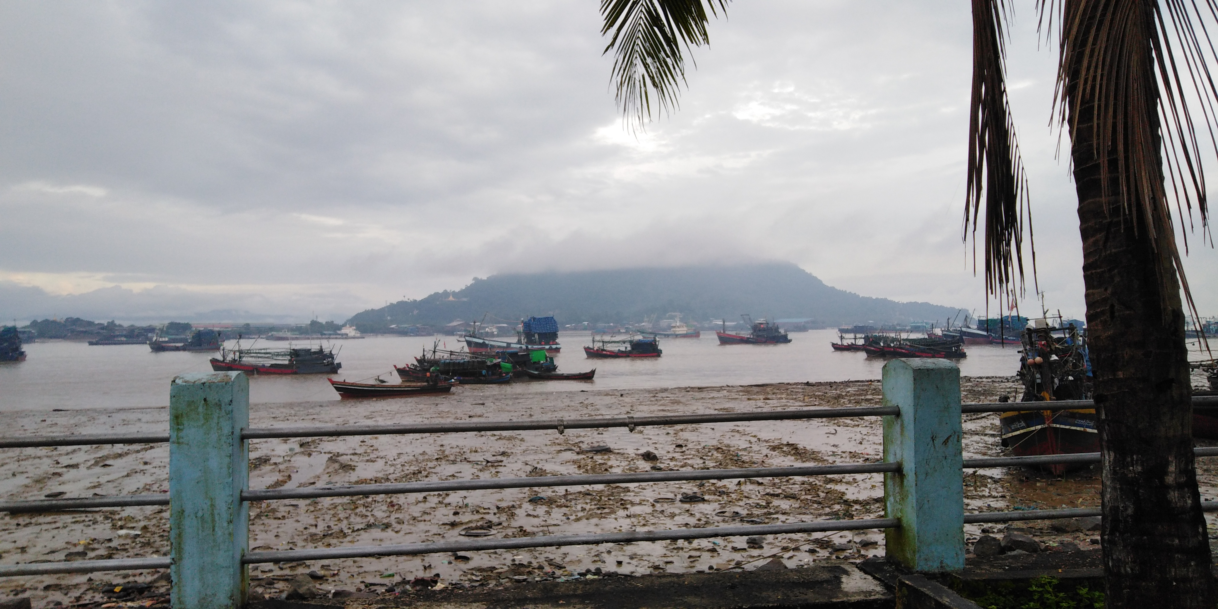 မြန်မာဘာသာ: I took this photo with my phone's camera in the chilly morning of wet September while I was on my business, it was so amazing and wonderful, it actually is natural beauty what I have ever seen at Myeik, Myanmar that is a port city of Tanintharyi Divison.